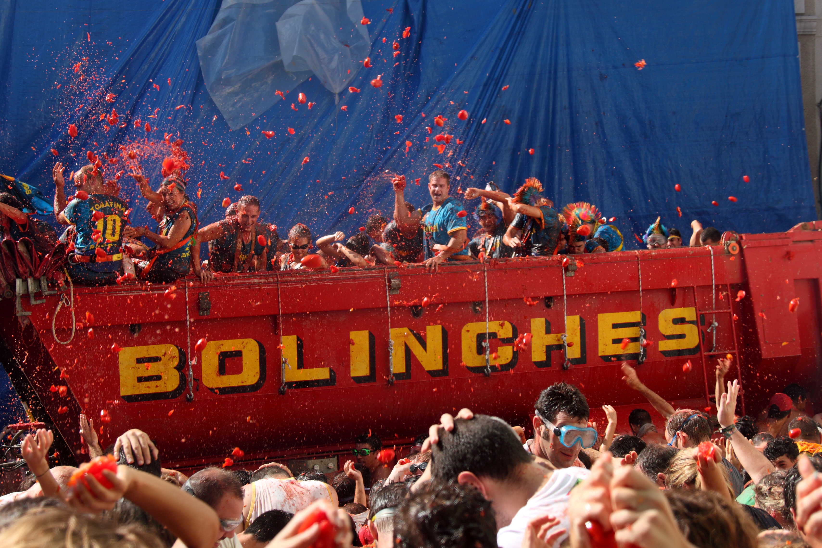 La Tomatina is a food fight festival held on the last Wednesday of August each year in the town of Buñol in the Valencia region of Spain. Tens of metric tons of over-ripe tomatoes are thrown in the streets in exactly one hour. Approximately 20,000–50,000 tourists come to find out more about the t ht, multiply by several times Buñol's norMmal population of slightly over 9,000. There is limited accommodation for people who come to La Tomatina, and thus many participants stay in Valencia and travel by bus or train to Buñol, about 38 km outside the city. In preparation for the dirty mess that will ensue, shopkeepers use huge plastic covers on their storefronts in order to protect them. They also use about 150,000 (kg) tomatoes, just about 90,000 pounds (